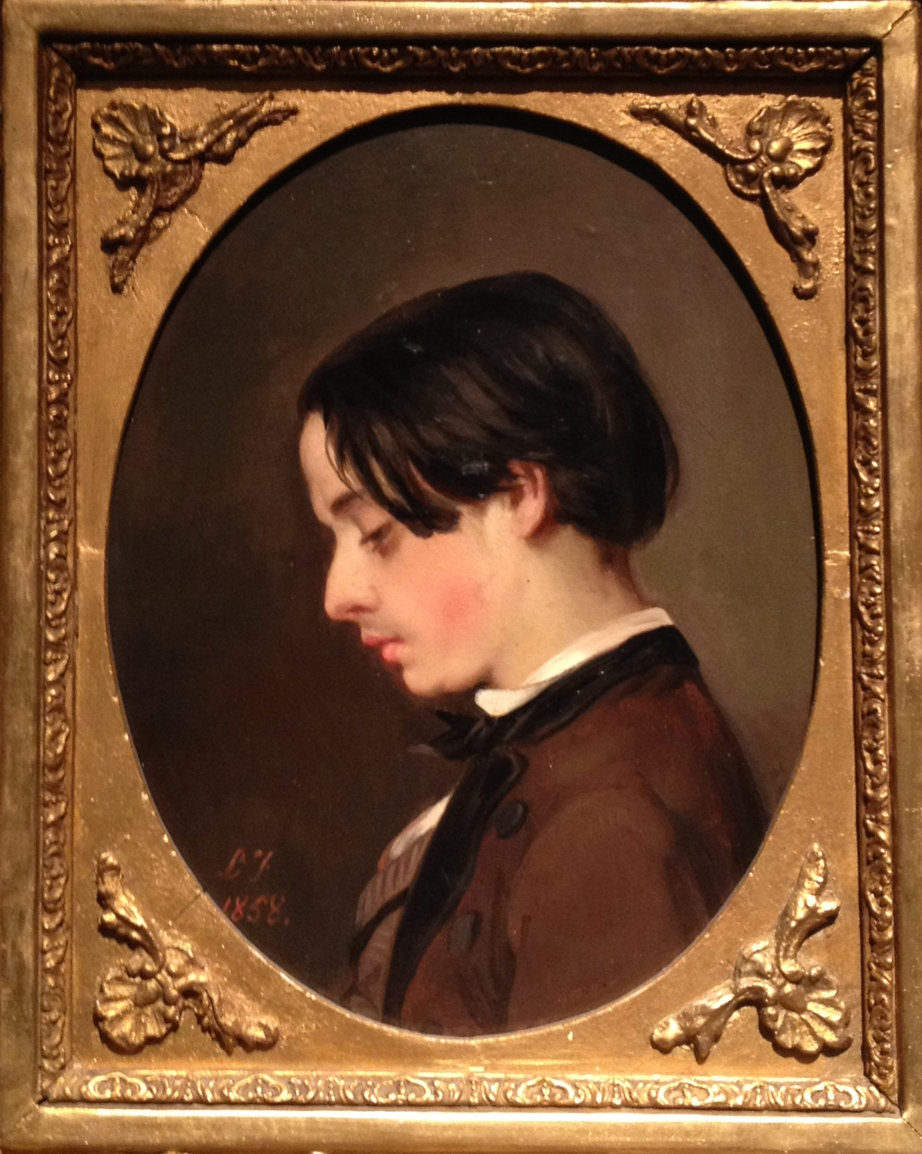 Portrait of Alejandro Ferrant y Fischermans by Luis Ferrant y Llausás